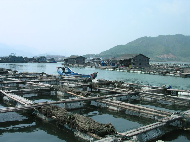 Marine aquaculture in Luoyuan Bay of Luoyuan, Fuzhou, China